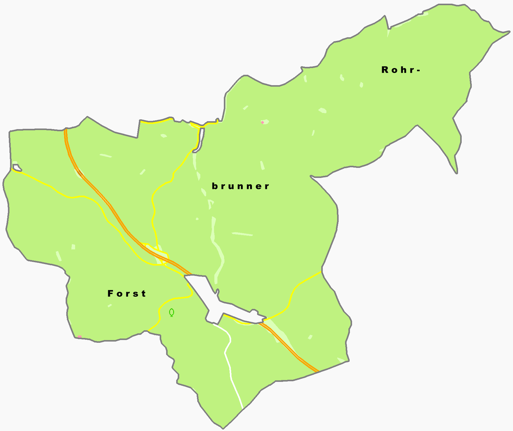 Unincorporated area Rohrbrunner Forst Grassland, Meadow Settlement area Forest Municipal border Freeway Main street Side street Natural monument